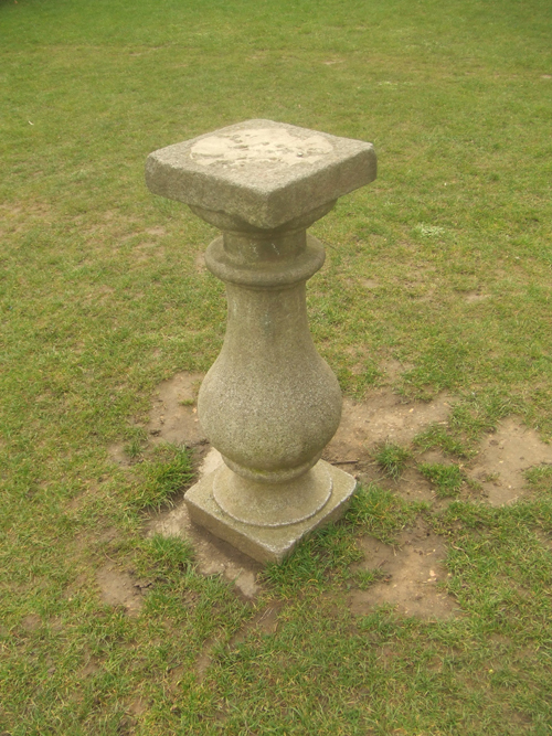 Old Waterloo Bridge baluster found in Antrim Park, Belsize Park, to be featured in forthcoming Londonist map 'Itinerant London'.